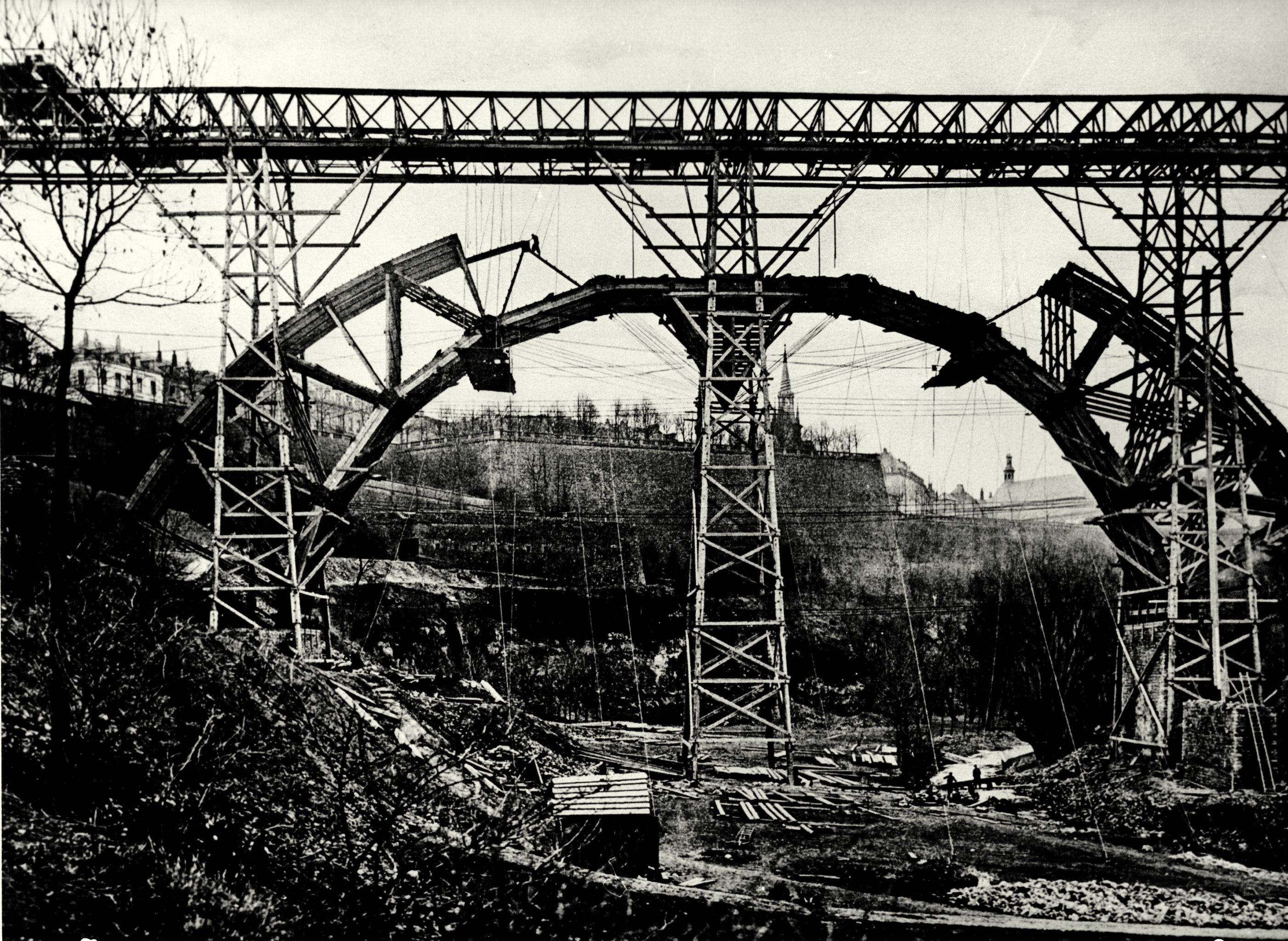 Construction of the Adolphe Bridge (1900-1903), documented by photographer Charles Bernhoeft.